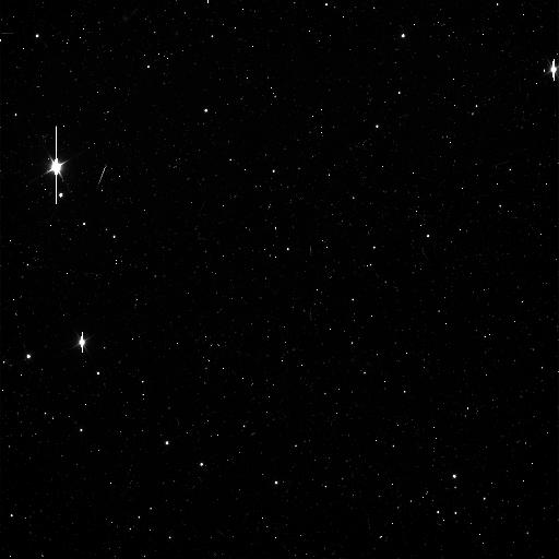 Raw image N00151812.jpg. The camera was pointing towards Skoll; it is not known which of the objects is the moon itself; the brightest are probably background stars.